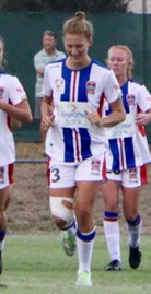 Rnd13CanJets - Newcastle